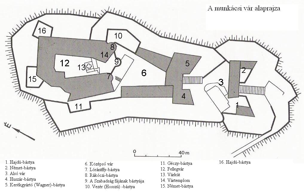 plan Palanok Castle in the city of Mukacheve